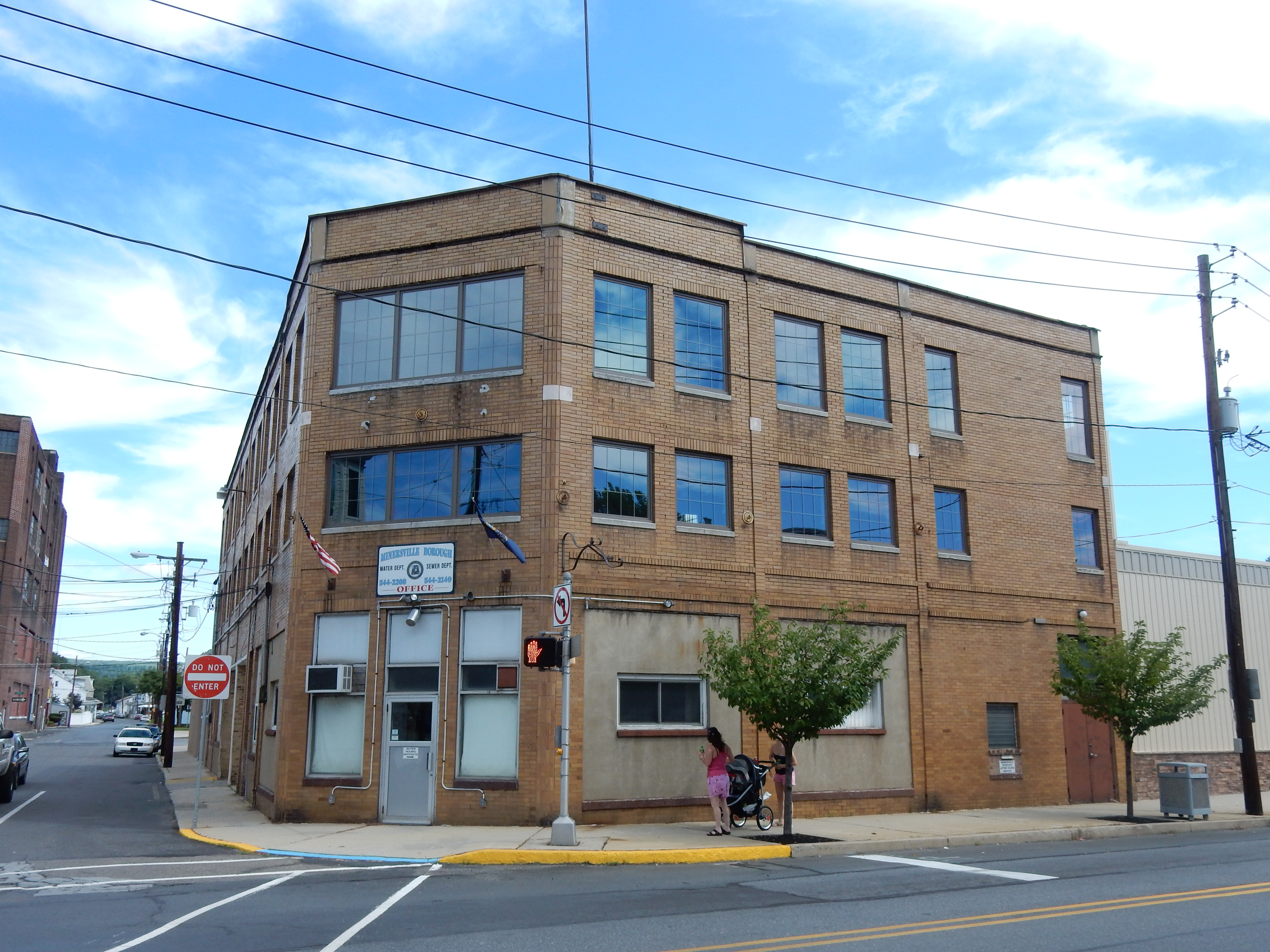 Minersville Borough Office, 2 East Sunbury Street, Minersville, Schuylkill County, Pennsylvania. Corner of N. Delaware Ave.